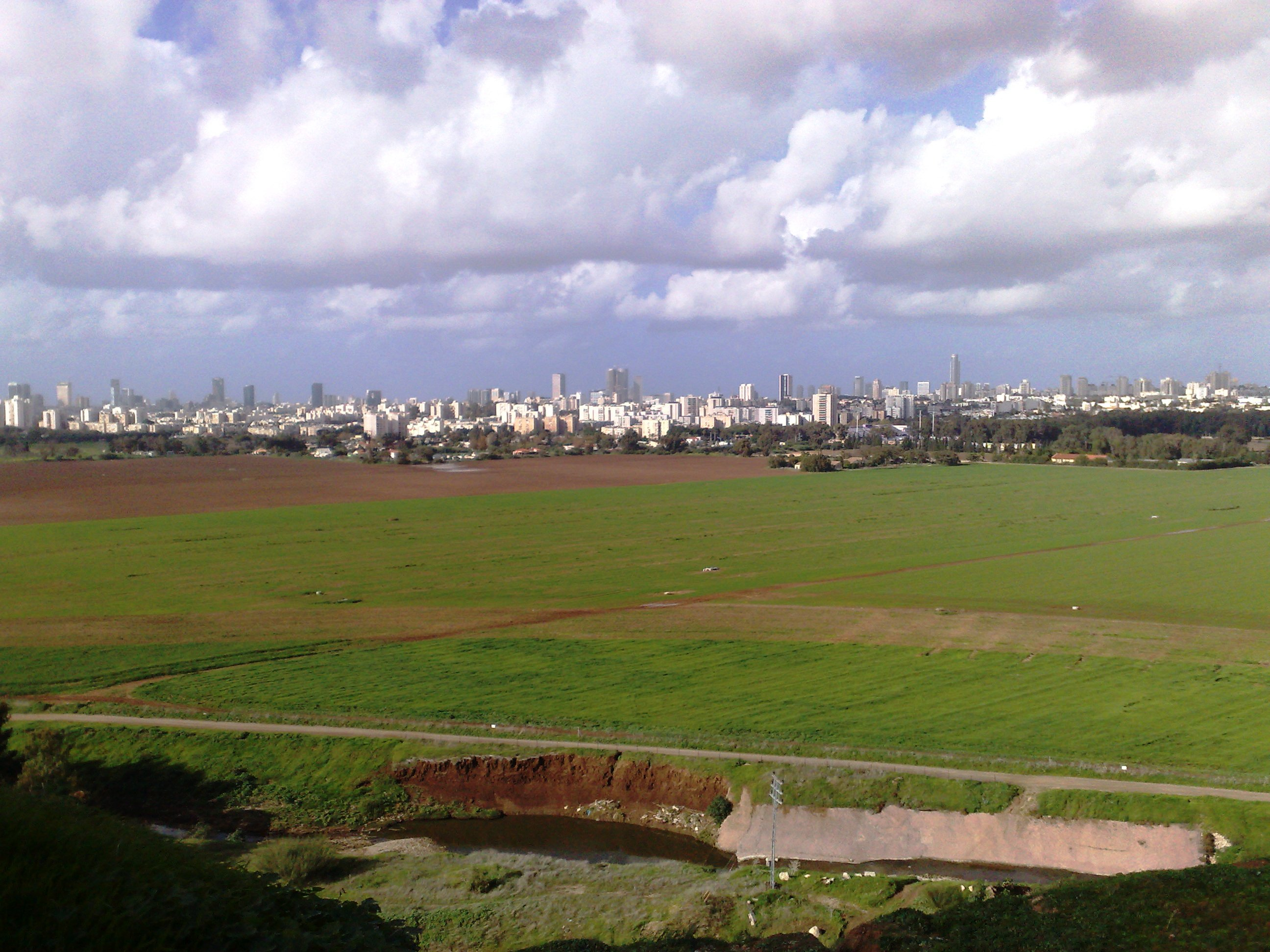 View from Parek ayalon